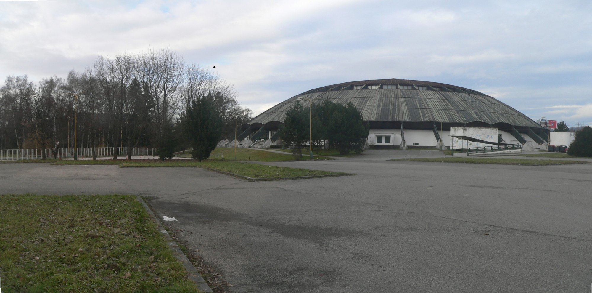 Sport hall in Zilina